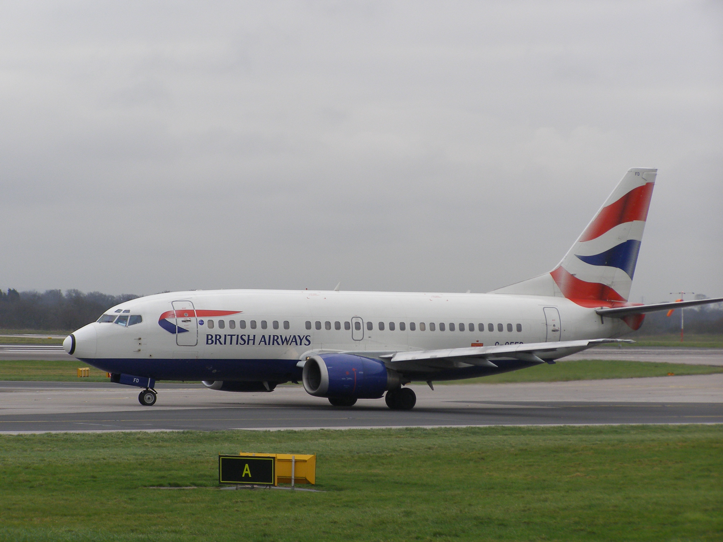 Boeing 737-500 registered G-GFFD of British Airways at Manchester Airport, England